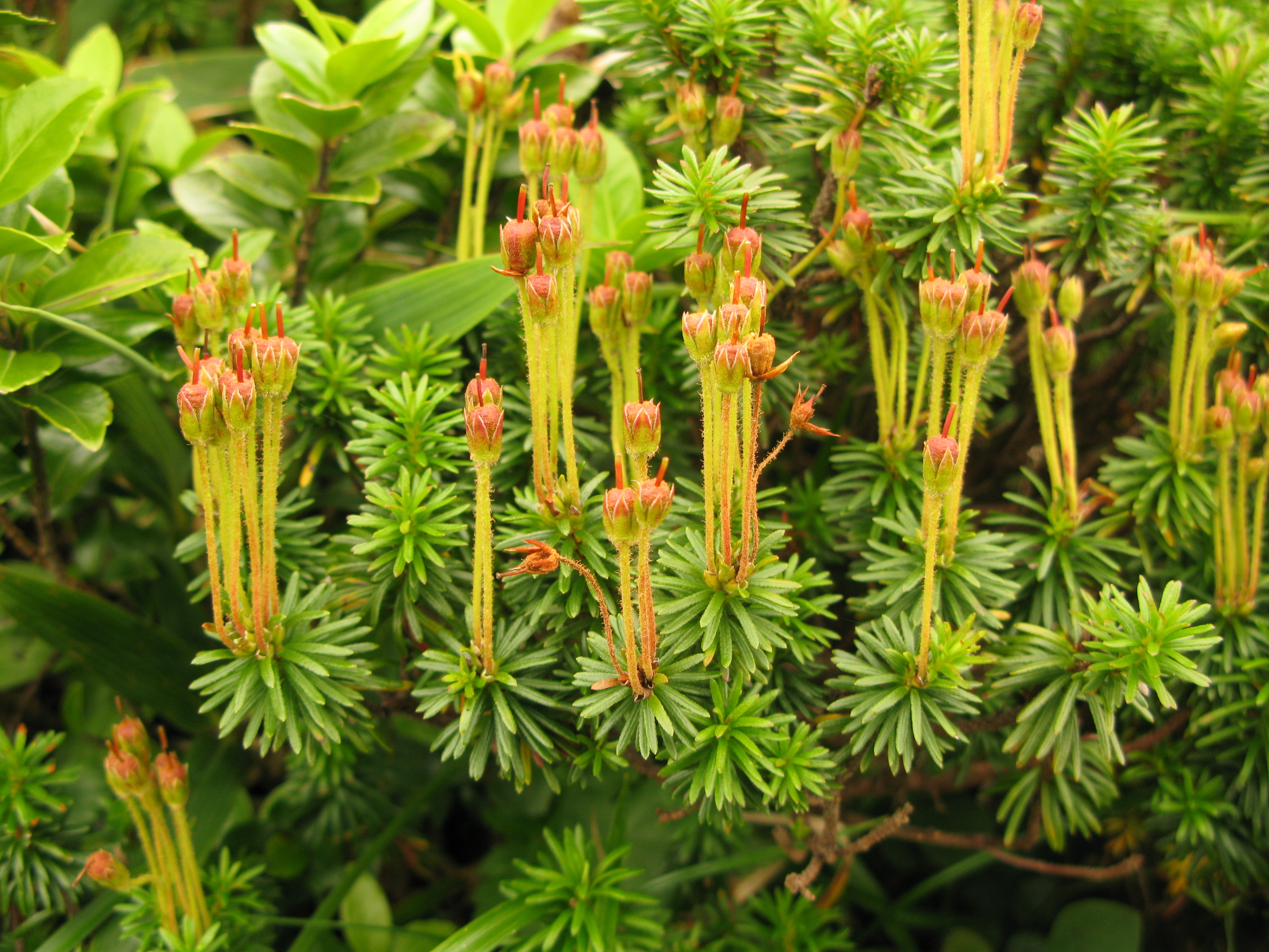 Phyllodoce aleutica, Mt. Nishi-Azumayama, Fukushima pref., Japan